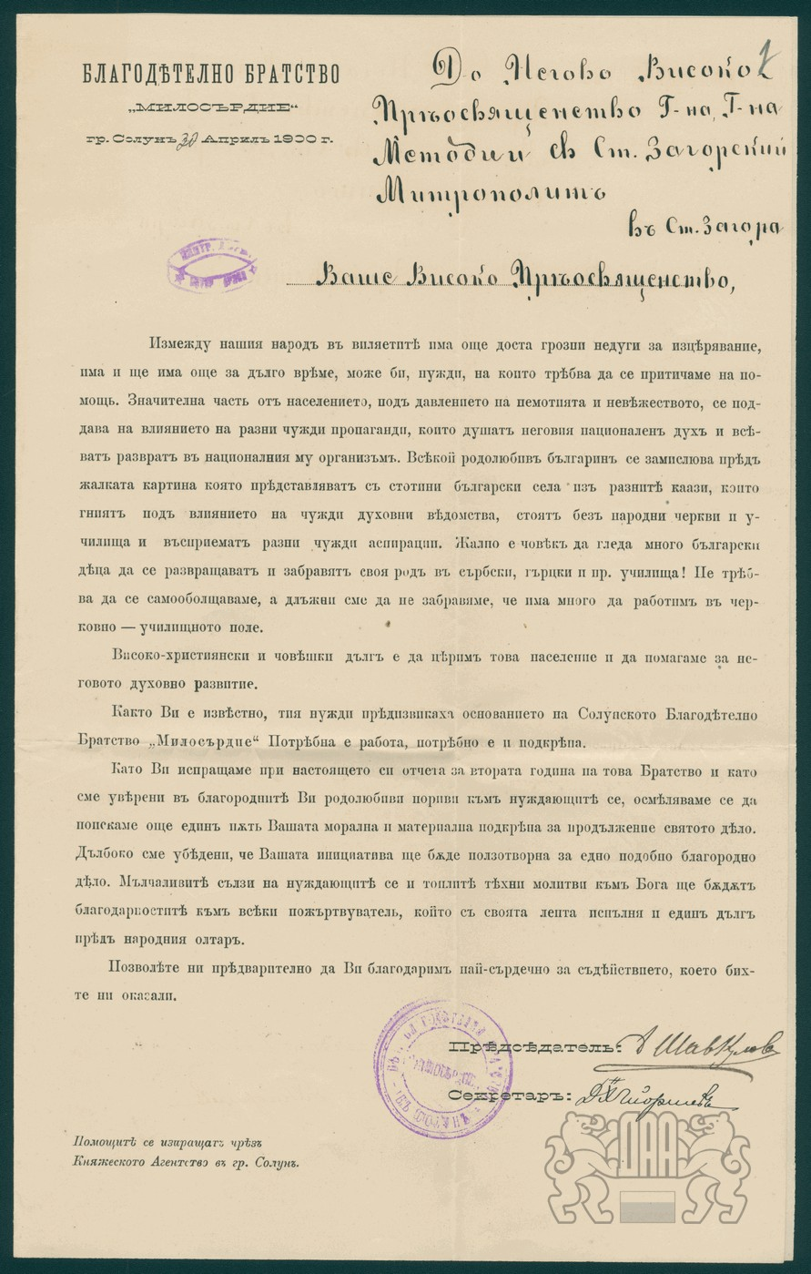 Letter from the Thessaloniki Bulgarian Charity brotherhood Milosardie to Methodius of Stara Zagora, 30 April 1900.